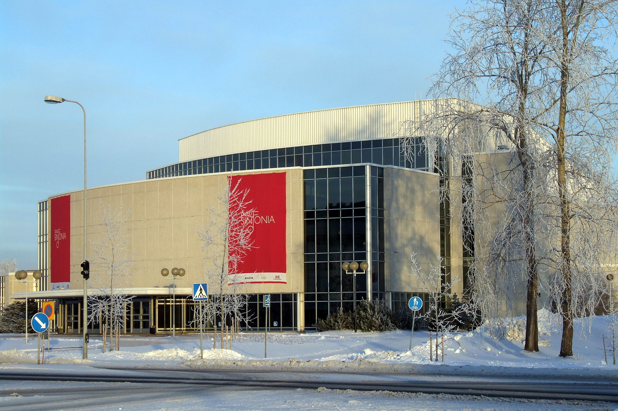 The Oulu Music Centre hosts Oulu Symphony Orchestra and Oulu Conservatoire. The building was designed by architect Matti Heikkinen and completed in 1983.